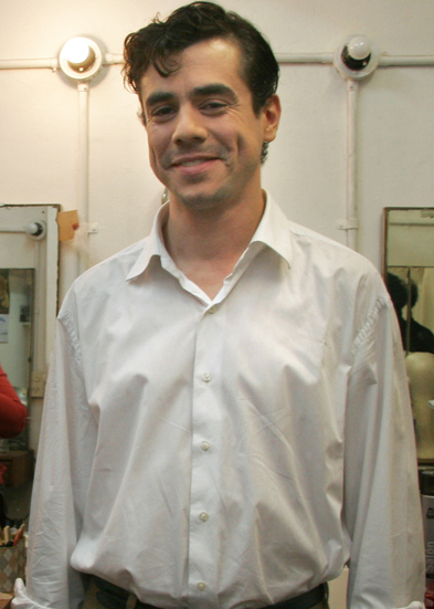 Javier Drogas encarna dos personajes: un joven estudiante llamado Juan y un revolucionario llamado Enrique. ( Foto: Estrella Herrera)